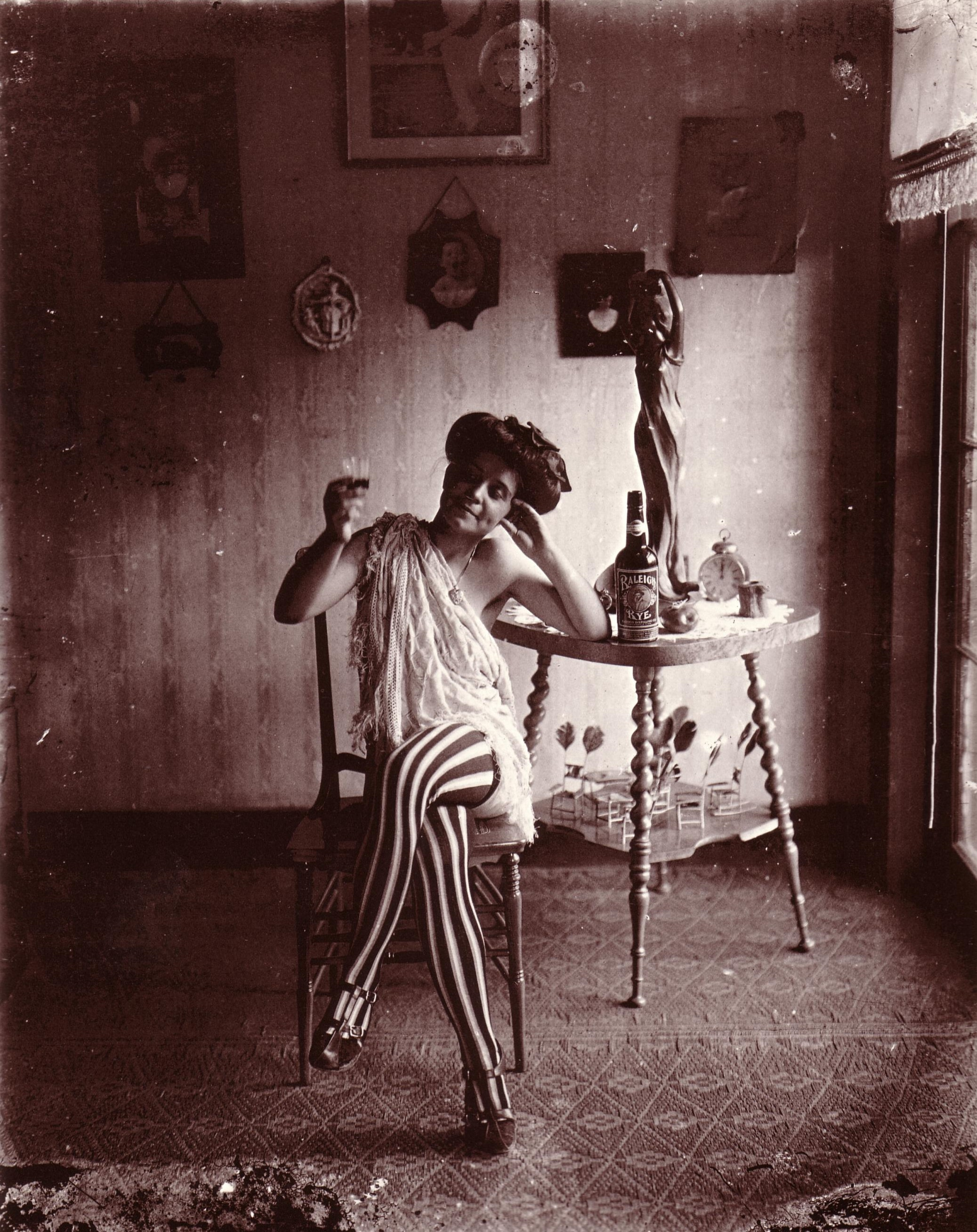 New Orleans: "Storyville" Red light district at the start of the 20th century. Seated woman wearing striped stockings, drinking "Raleigh" Rye.